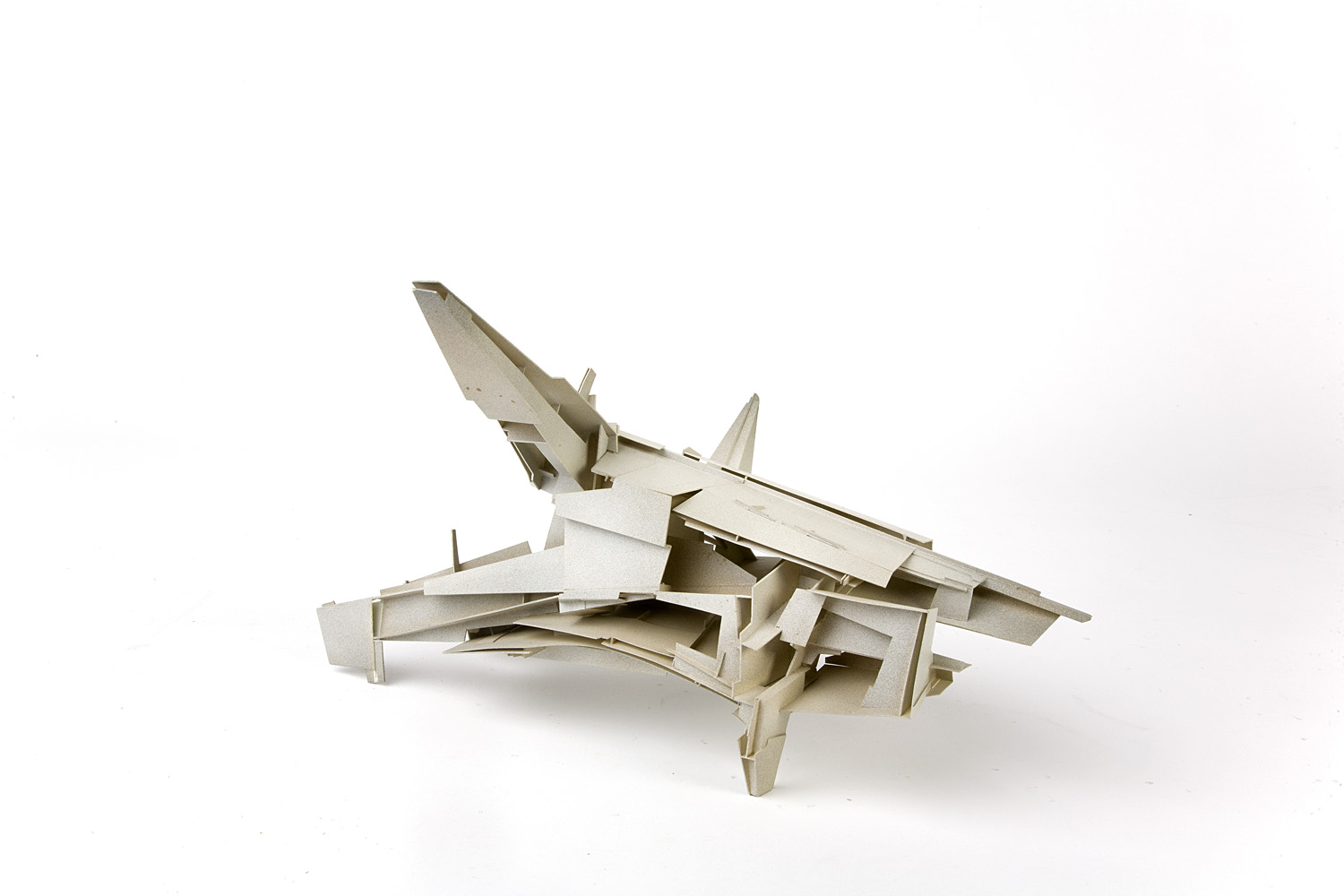 Lebbeus Woods. Starhouse One, 1996. NAi Collection, MAQV 1093